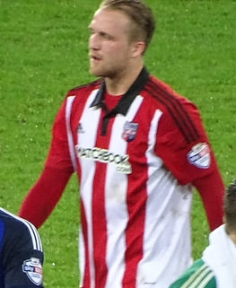 Philipp Hofmann, Brentford footballer, during a match against Cardiff City.